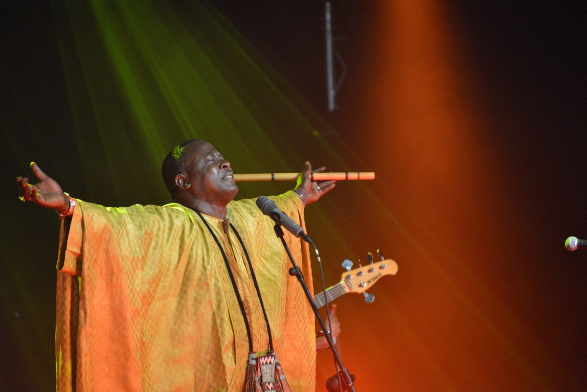 A concert of Mamar Kassey in The Netherlands